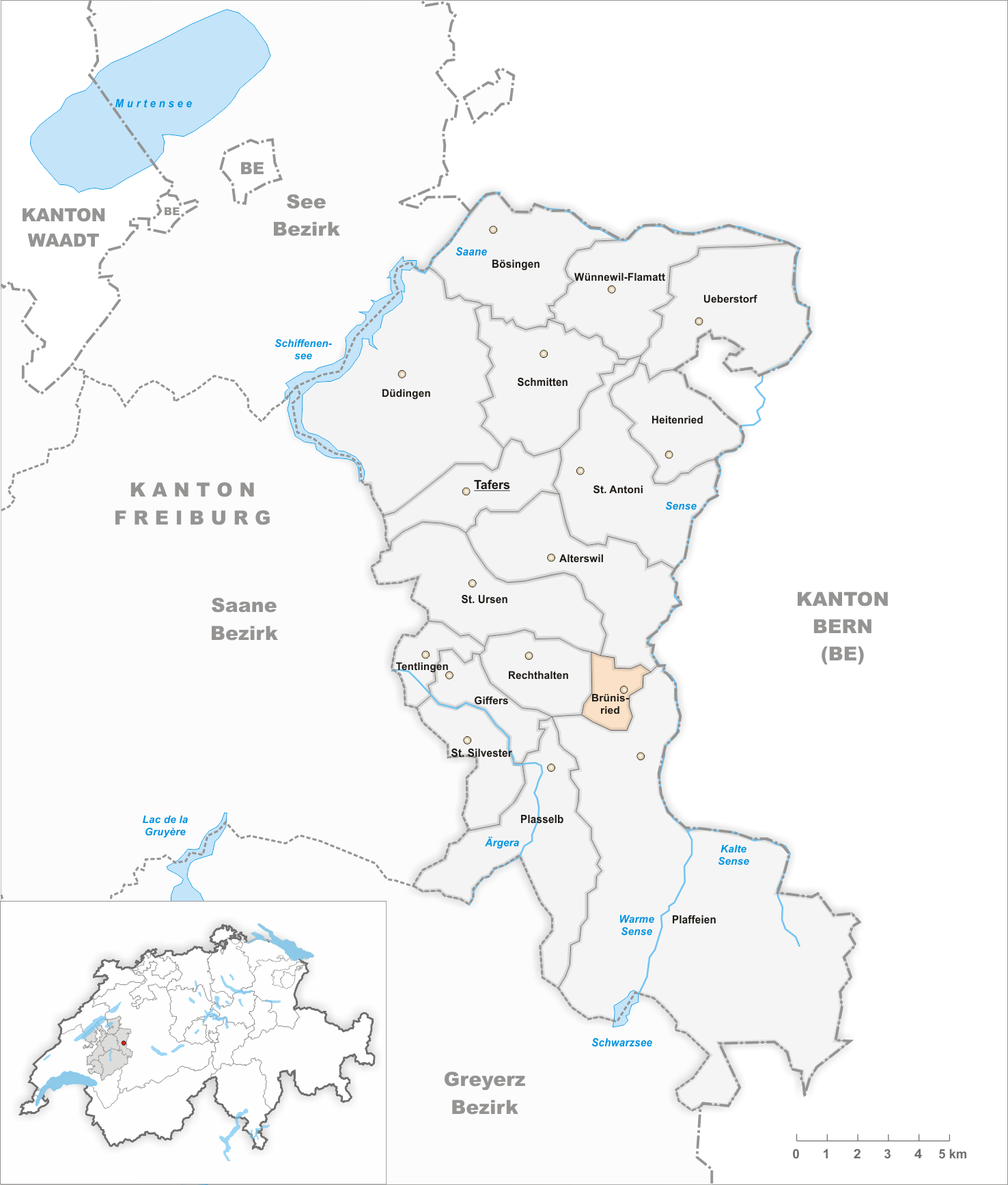 Municipality Brünisried